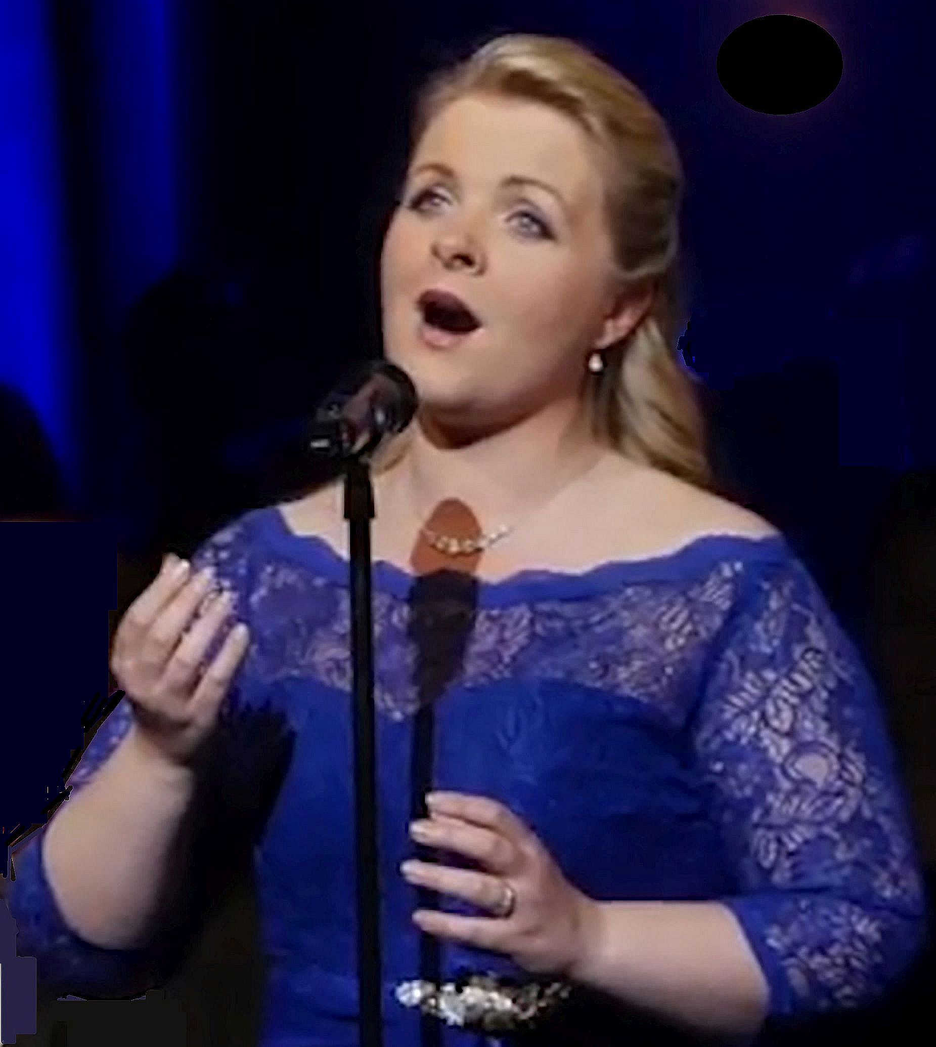 Rebecca at Leeds Grand Theatre 2015